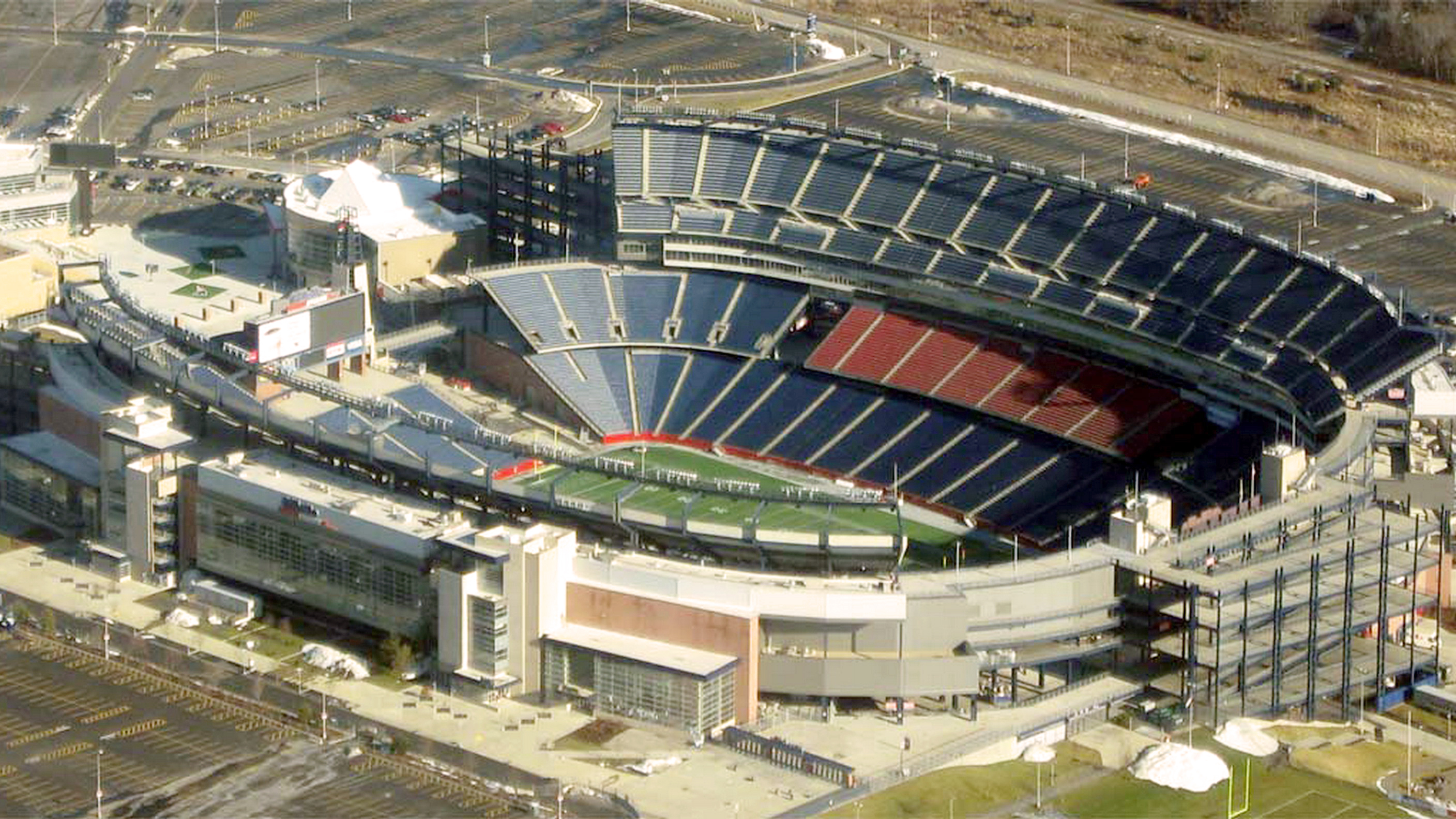 Photo of Gillette Stadium